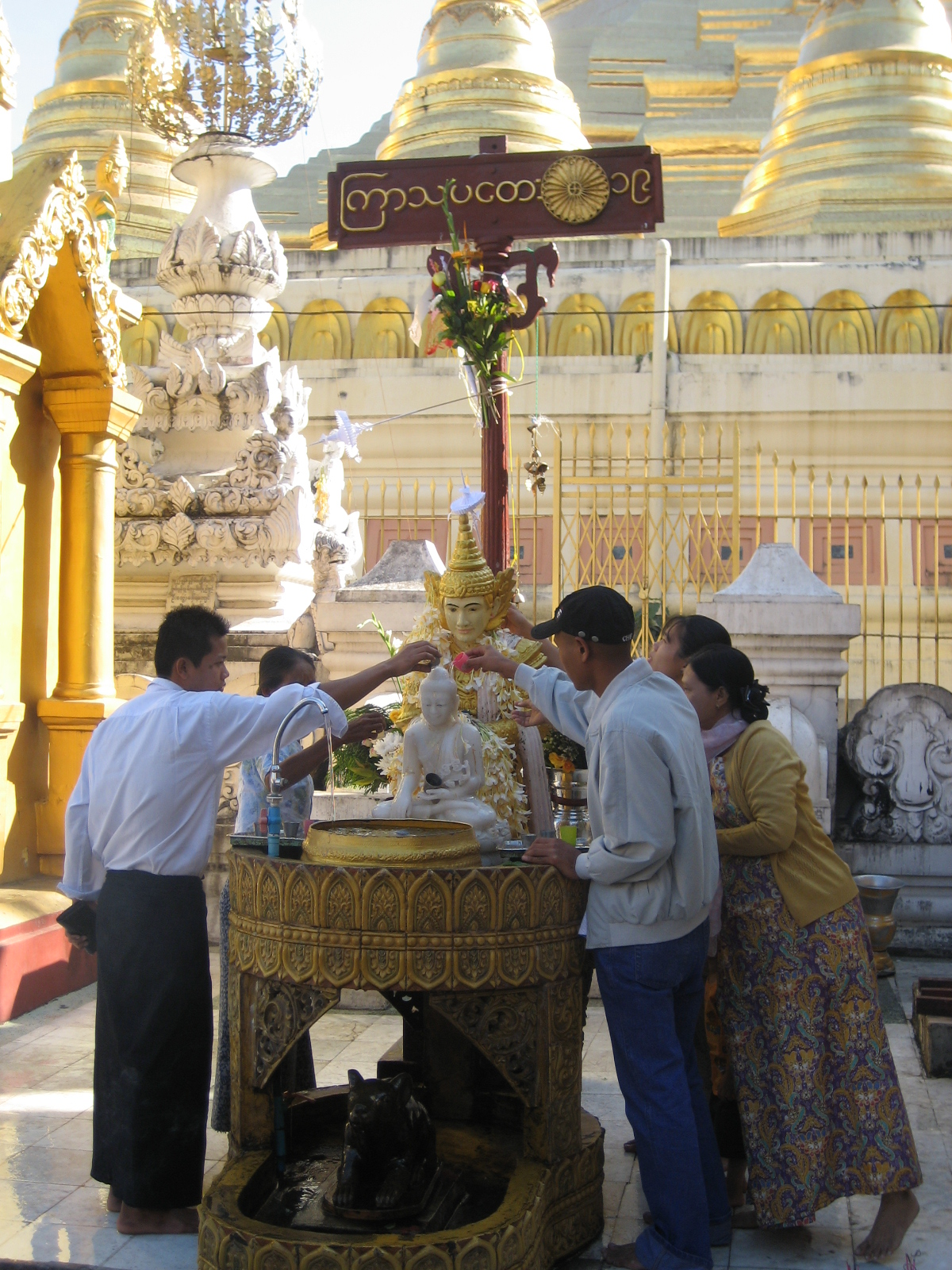 The planetary post for Jupiter (Thursday). Note the gyozaung nat (guardian spirit of the planet) behind the marble Buddha and the rat figure underneath representing Thursday. In front of the Buddha are a tap and tank and cups for devotees to pour water on the images.